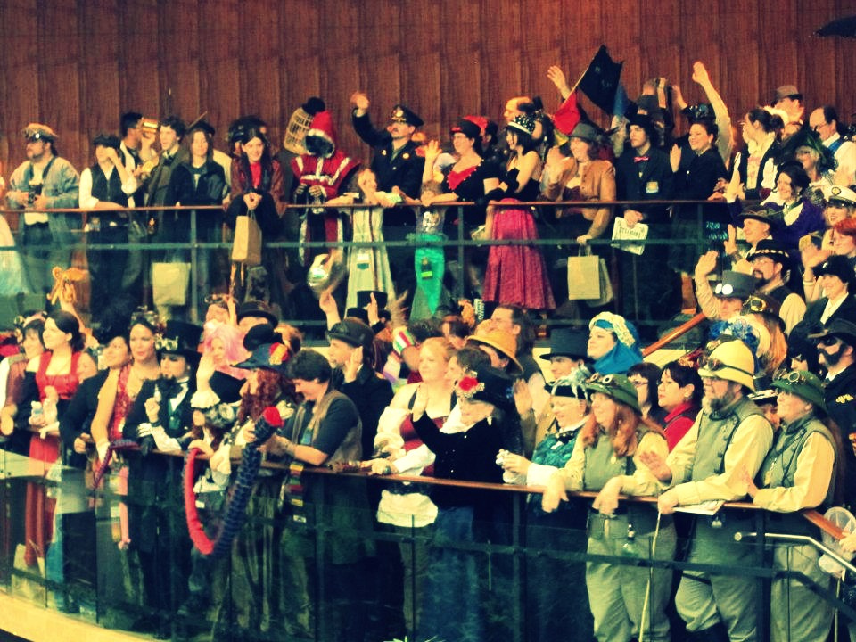 Steamcon III group photo